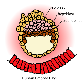 Derive from File:HumanEmbryogenesis.svg, with some minor modifications.